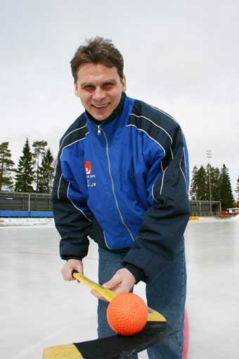 Dyakov, Alexey Grigorievich